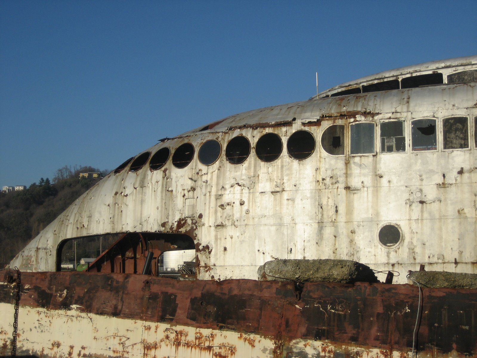 The former Washington State Ferry MV Kalakala, moored in Tacoma, Washington, 2007.